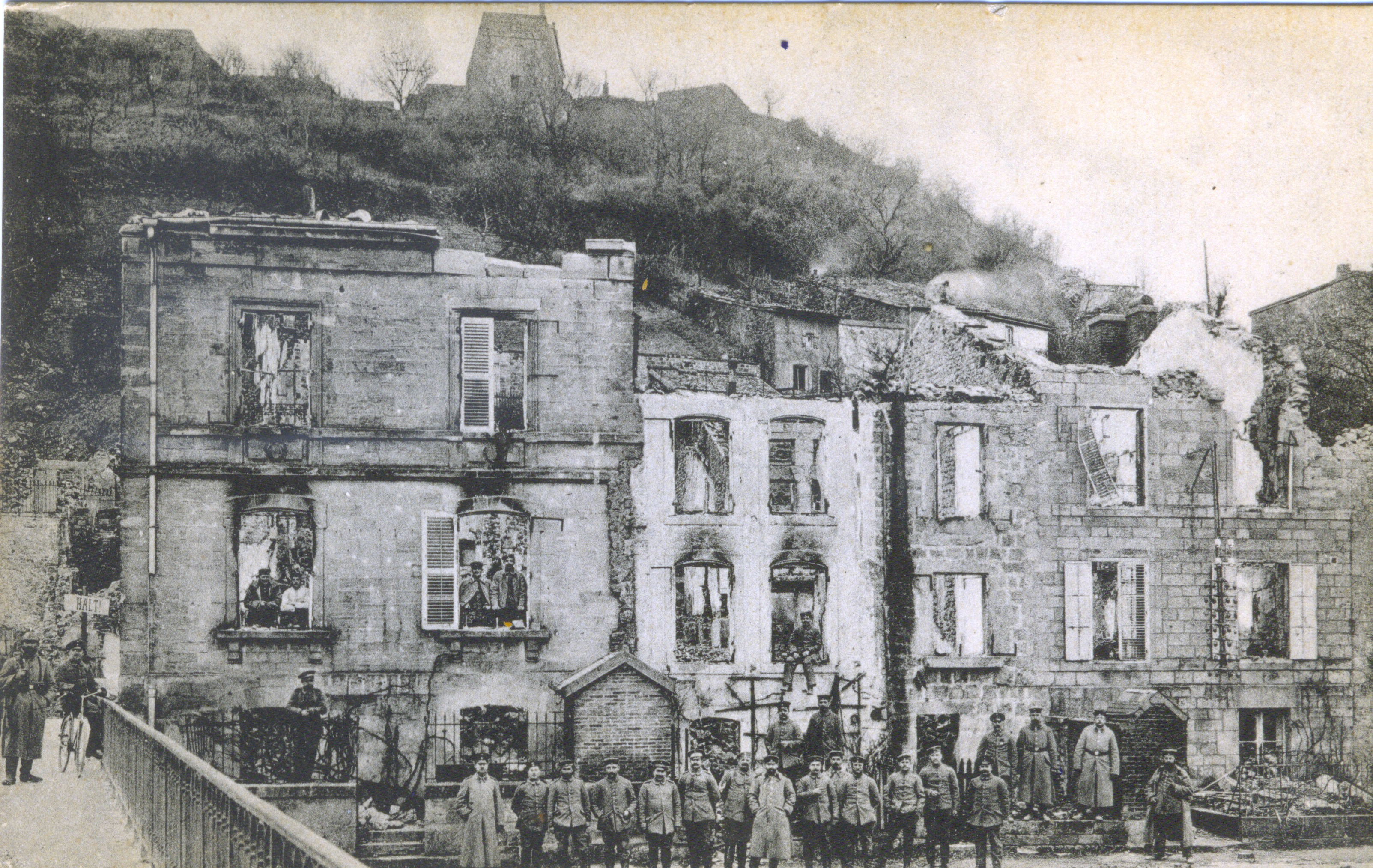 Persistent URL: Subject: World War I; Soldiers; Lost architecture; War damage; France--Dun; miami digital collections; bowden postcard collection